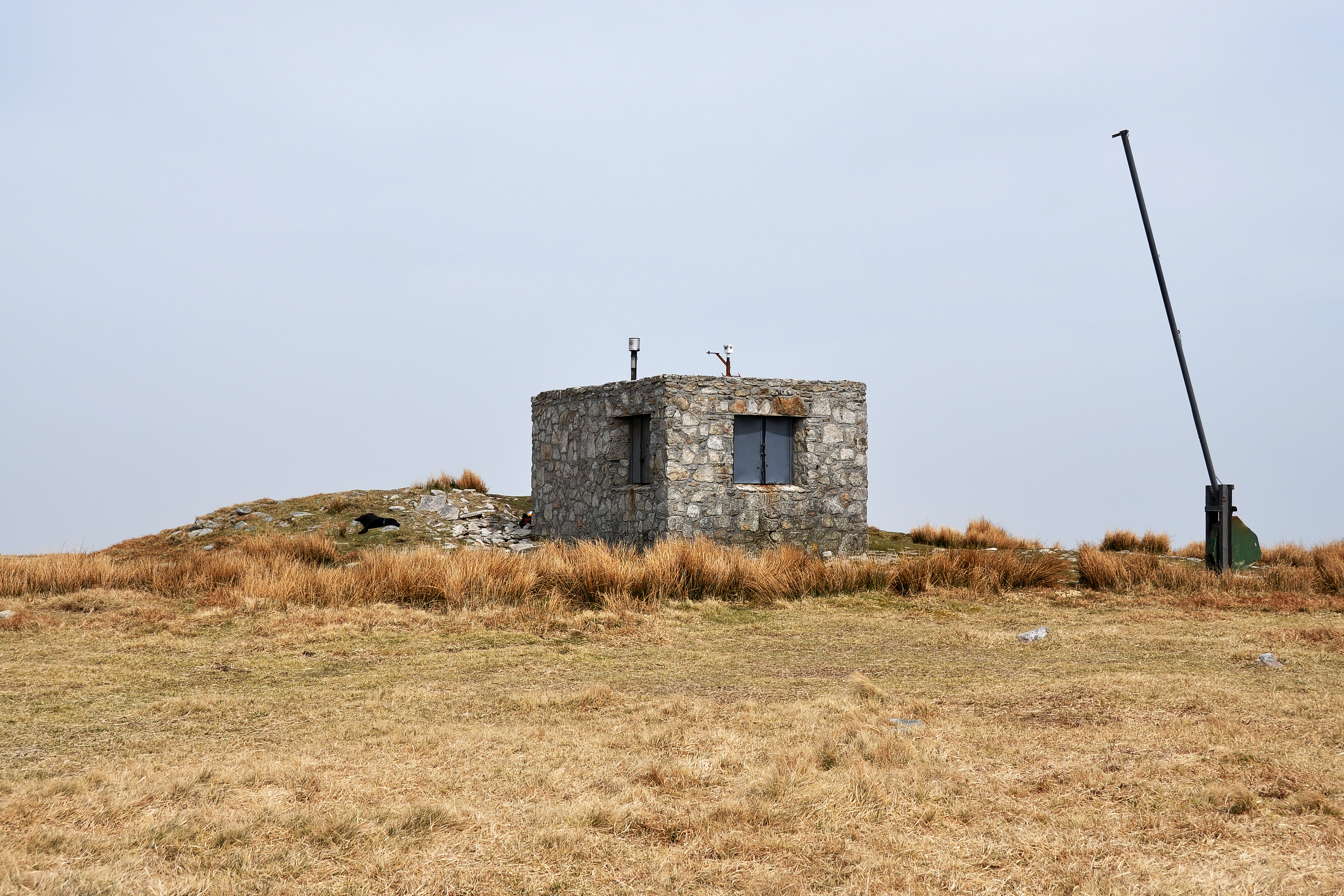 A military building and flagpole on the summit of Hangingstone Hill in the centre of Dartmoor.